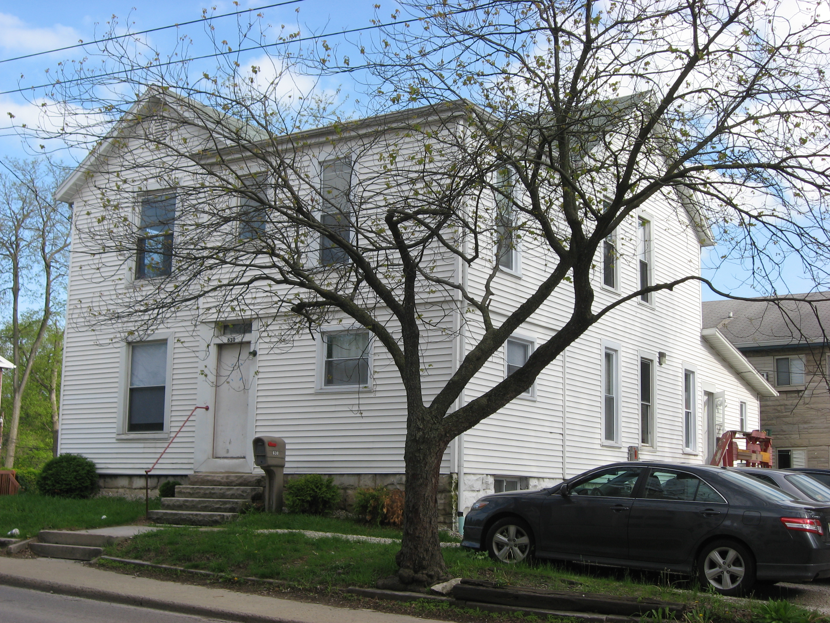 Front and eastern side of the Carl Eigenmann House, located at 630 E. Atwater Avenue in Bloomington, Indiana, United States. Built in 1900, it is part of the locally-designated Elm Heights Historic District.